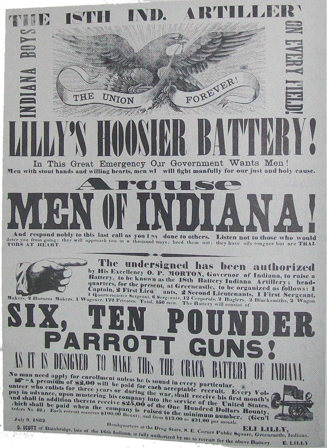 An American Civil War recruitment poster for the Lilly Hoosier Battery, posted by Colonel Eli Lilly in 1862